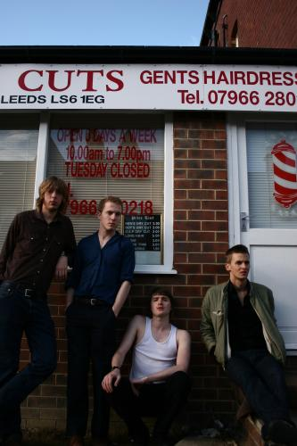 This is a picture of the band, it was taken by Ryan Postlethwaite in June 2006